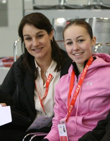 Kimmie Meissner and her coach Pam Gregory at the 2007-2008 ISU Grand Prix of Figure Skating Final.